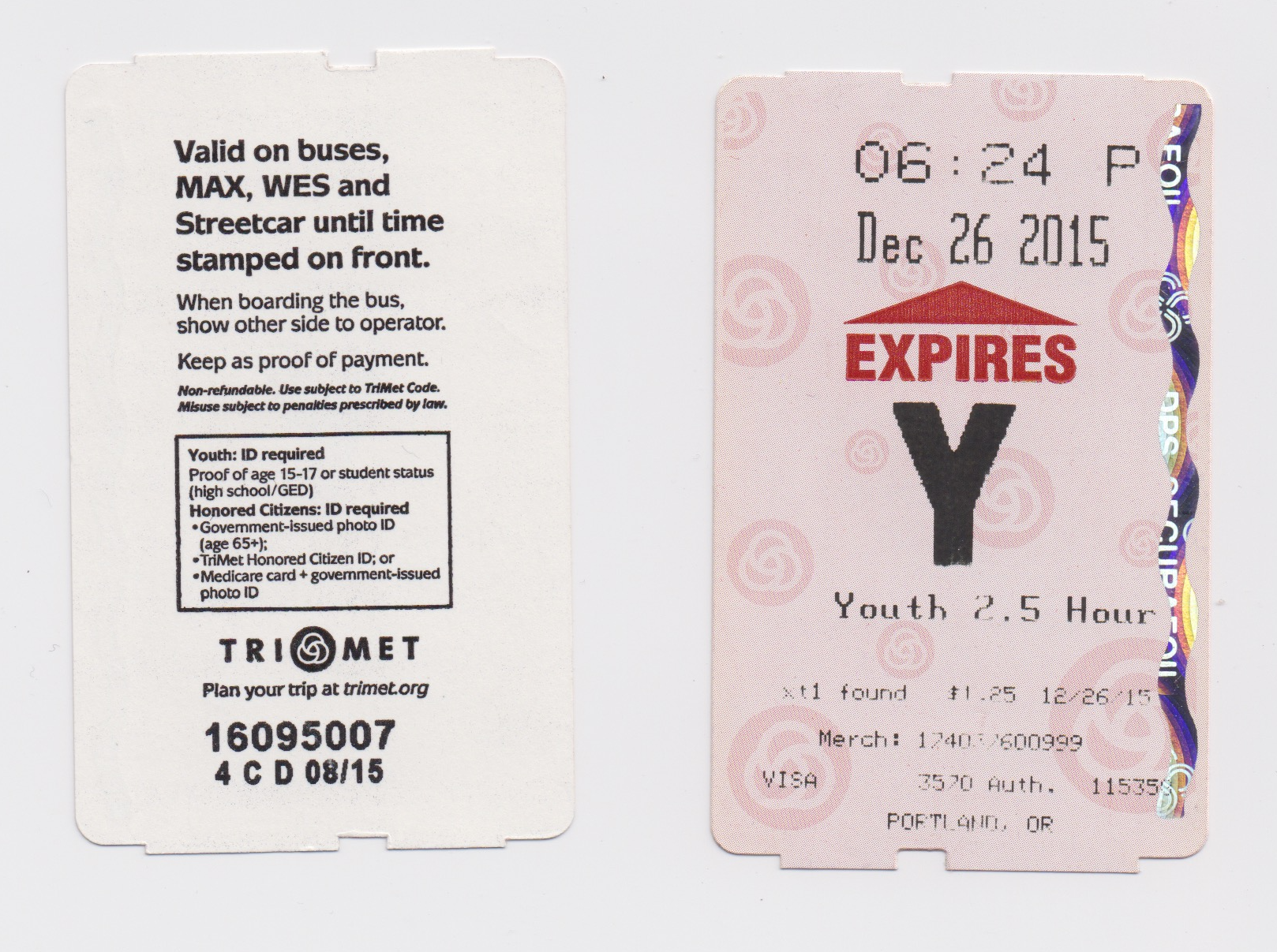 Youth TriMet ticket with a revision date of 08/15.